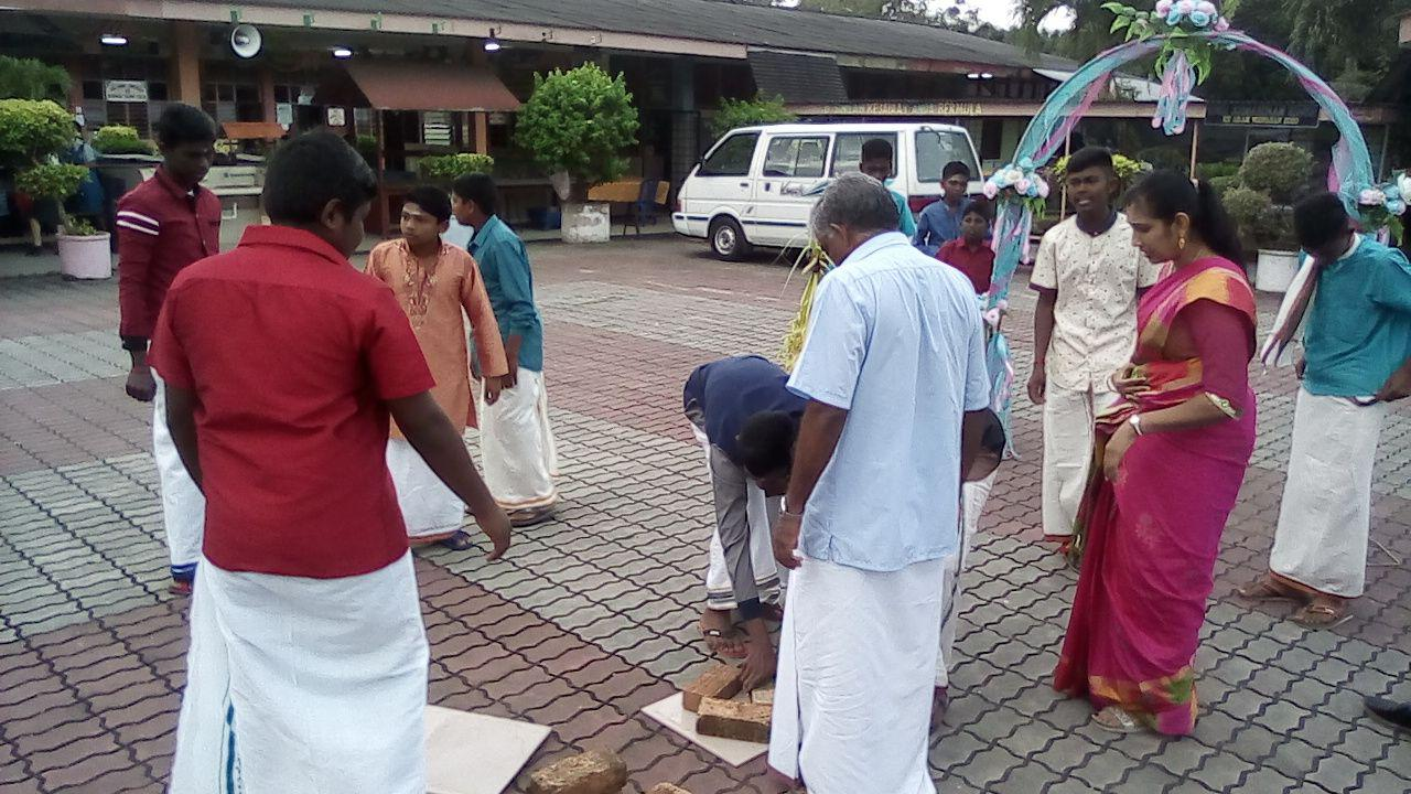 PONGGAL 2